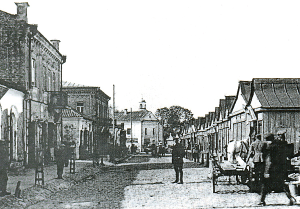 Daniel of Galicia street in 1925.